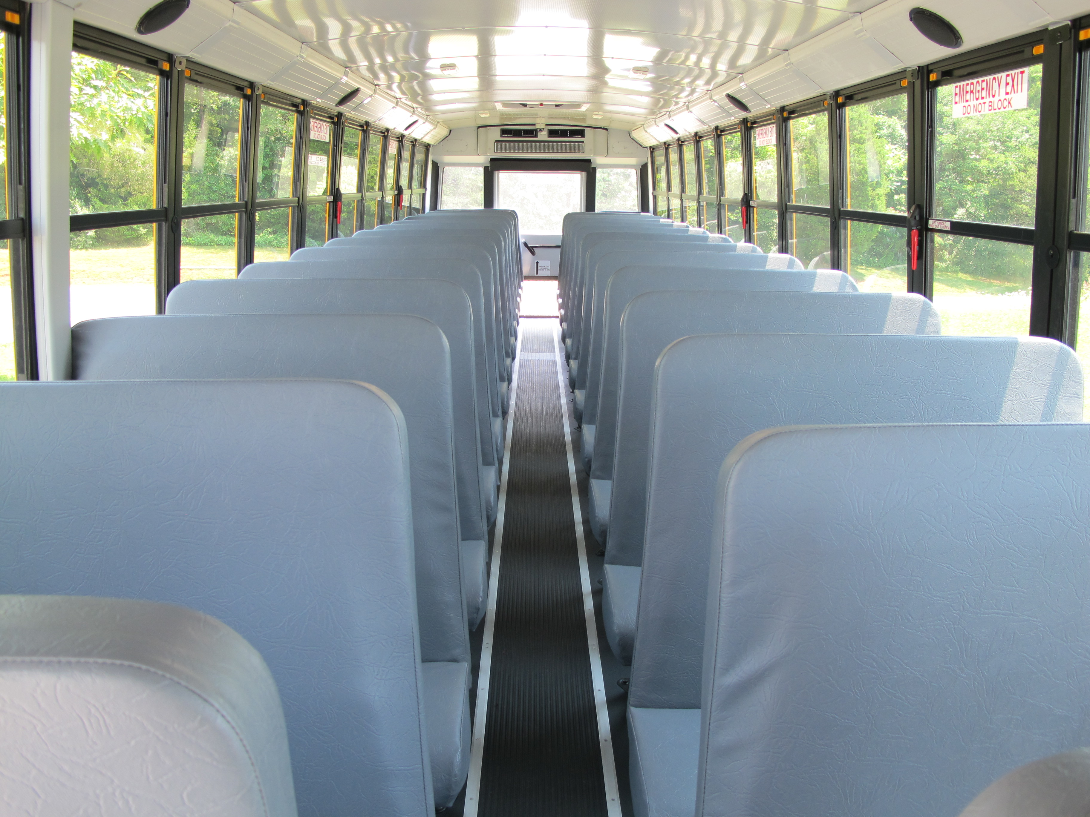 A view looking back at the passenger seats of a 2012 Thomas Saf-T-Liner C2 school bus, a conventional-style school bus. Description from Flickr:Front to Back A Division of Freightliner Albemarle County School Bus 114 Air-conditioned for Summer School 2012 June 19, 2012